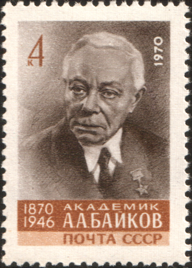 USSR stamp: Alexander Baykov. Series: Birth Centenary of Alexander Baykov (Metallurgic Scientist and Chemist, Academician)